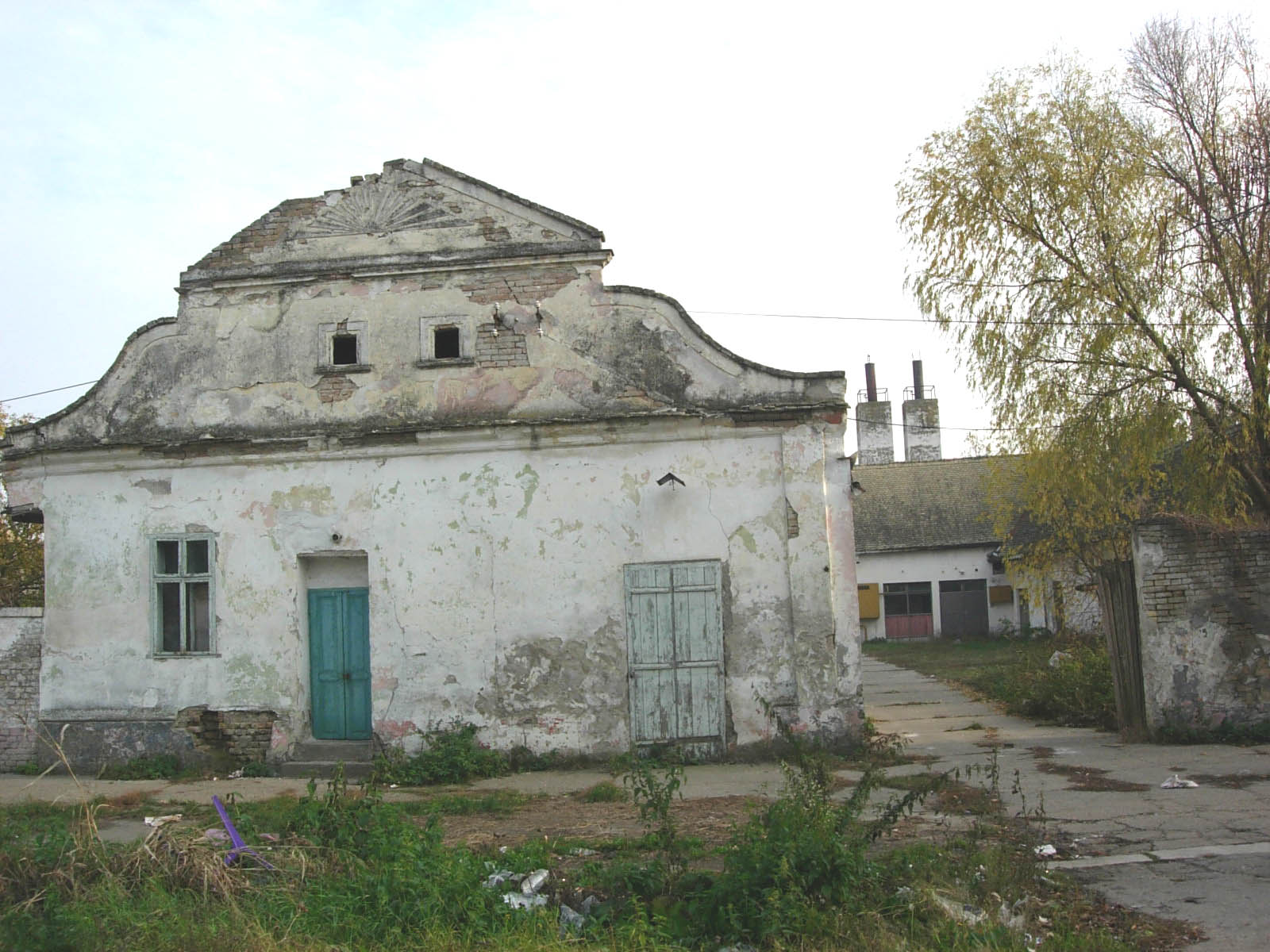 House in Bački Gračac. In this place will stay the future Orthodox church.